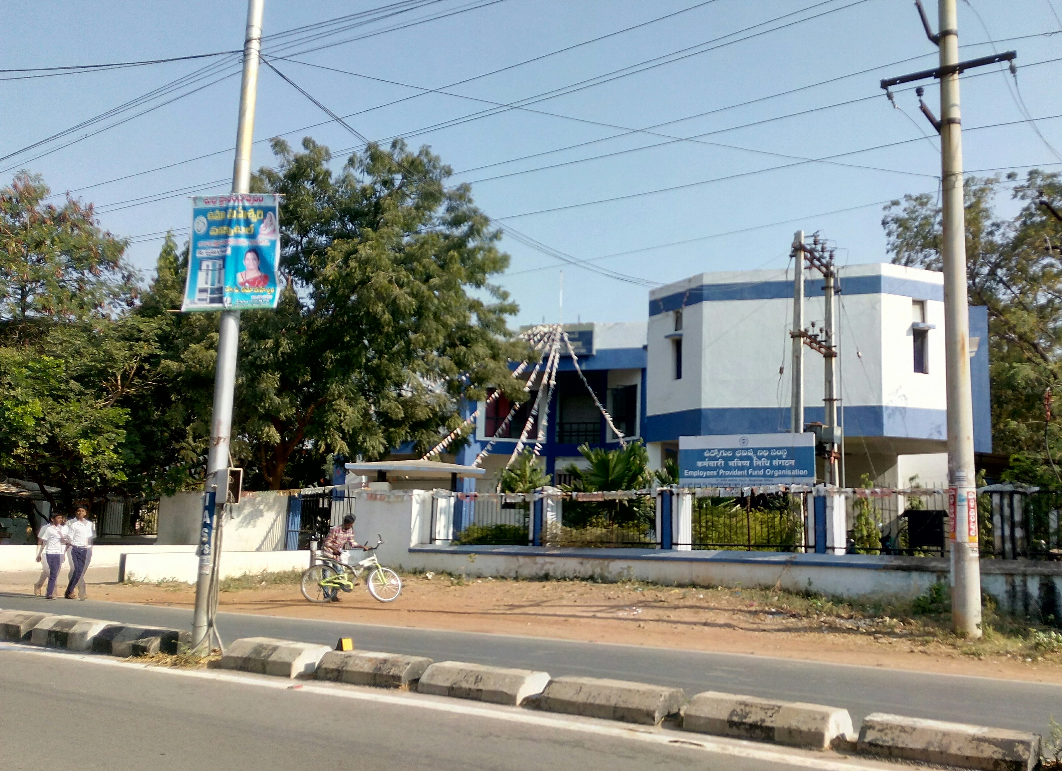 EPFO,Kadapa